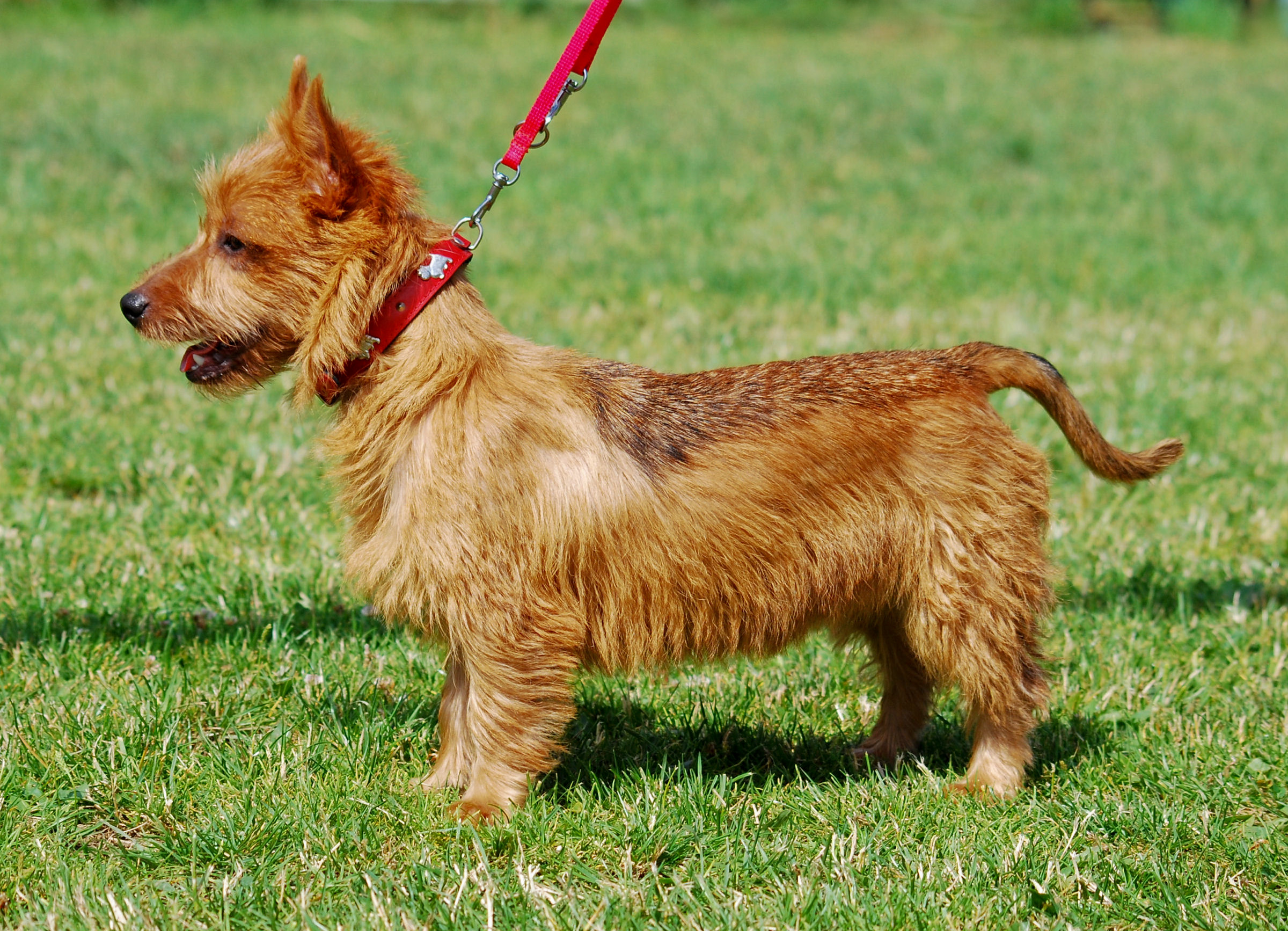 Australian Terrier XXXIII dogs show in Ustroń, Poland